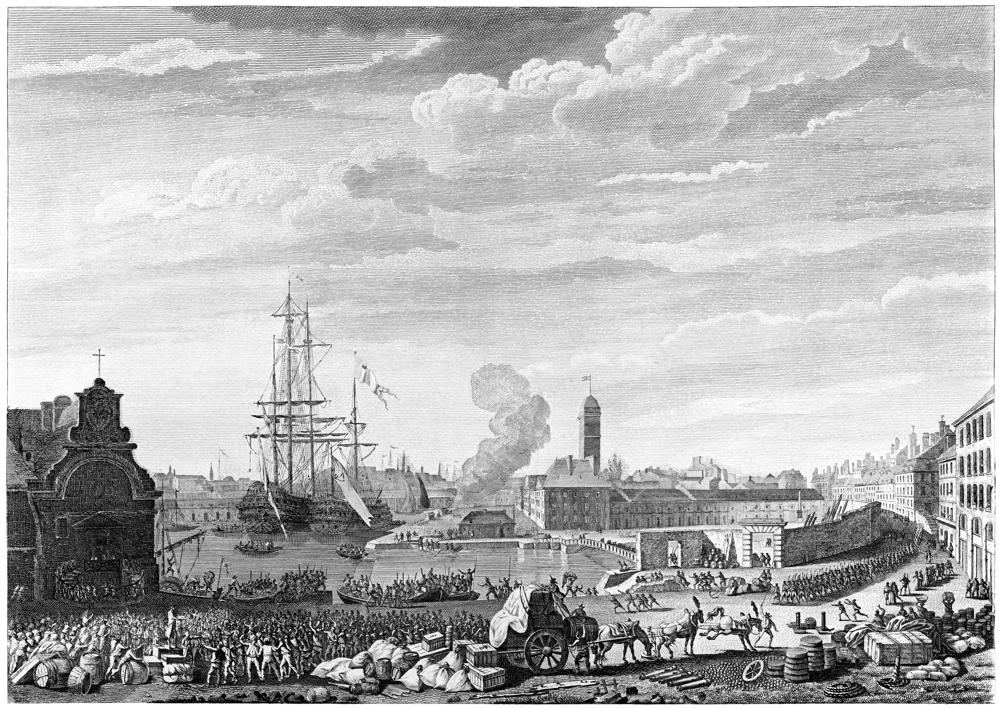 French Revolution in Brest : The insurrection of the ships of the line, America and Leopard in September 1790. Print, etching, burin.